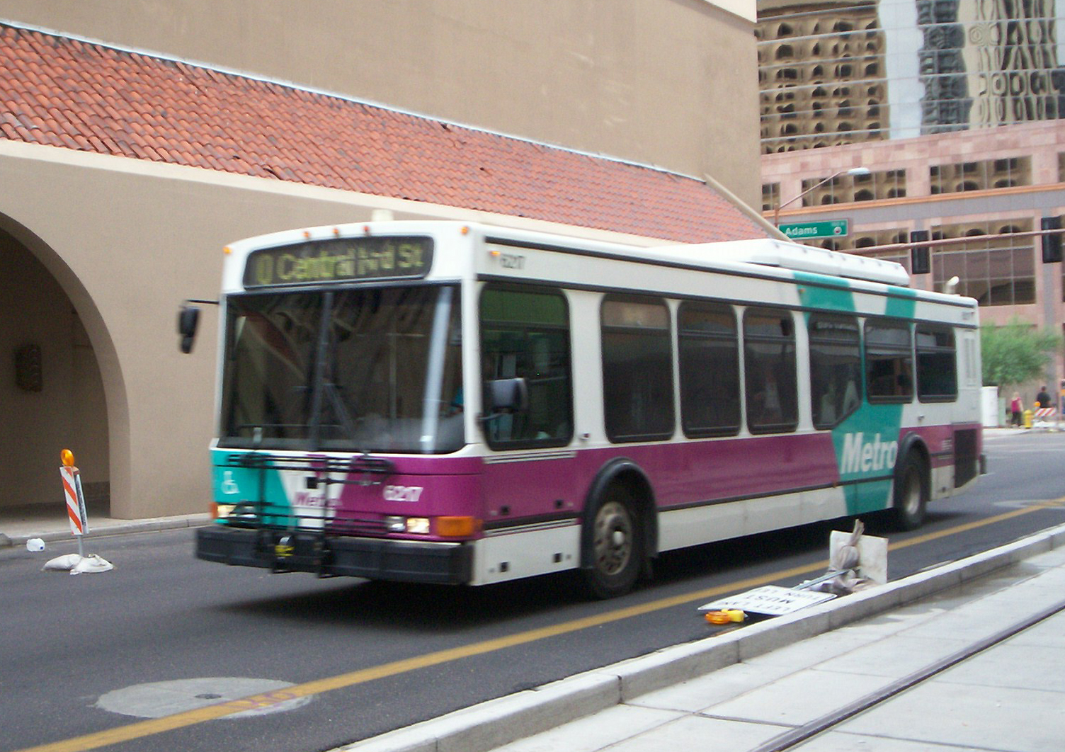 Valley Metro bus traveling north on Central Avenue in Central City Village, in downtown Phoenix, Arizona. This 1999 NABI 40-LFW is owned by the City of Phoenix and operated by Veolia-Phoenix North Division. Morning commute, August 26, 2008. Photo taken by uploader.